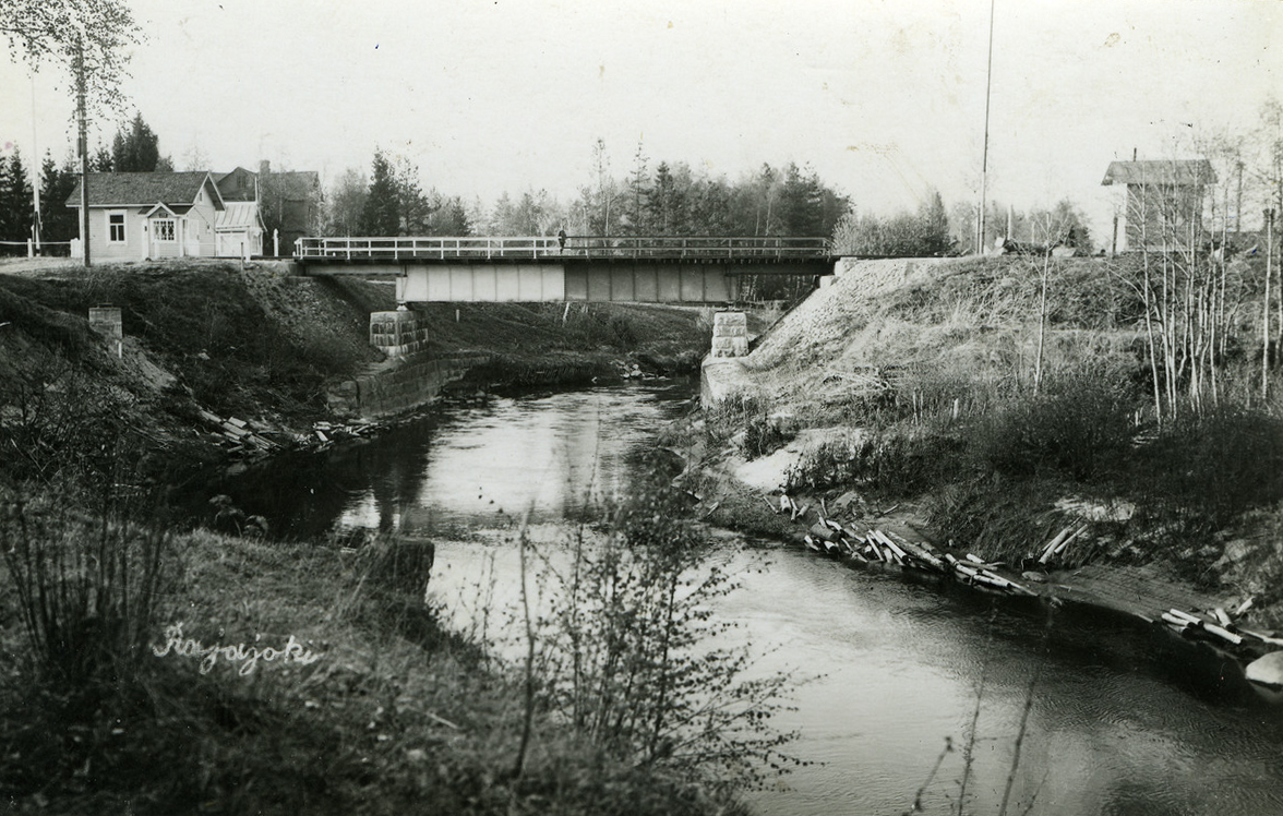 A railway bridge, now in Beloostrov, Russia, crossing Sestra River (Rajajoki) and the Finnish–Soviet border in 1920s